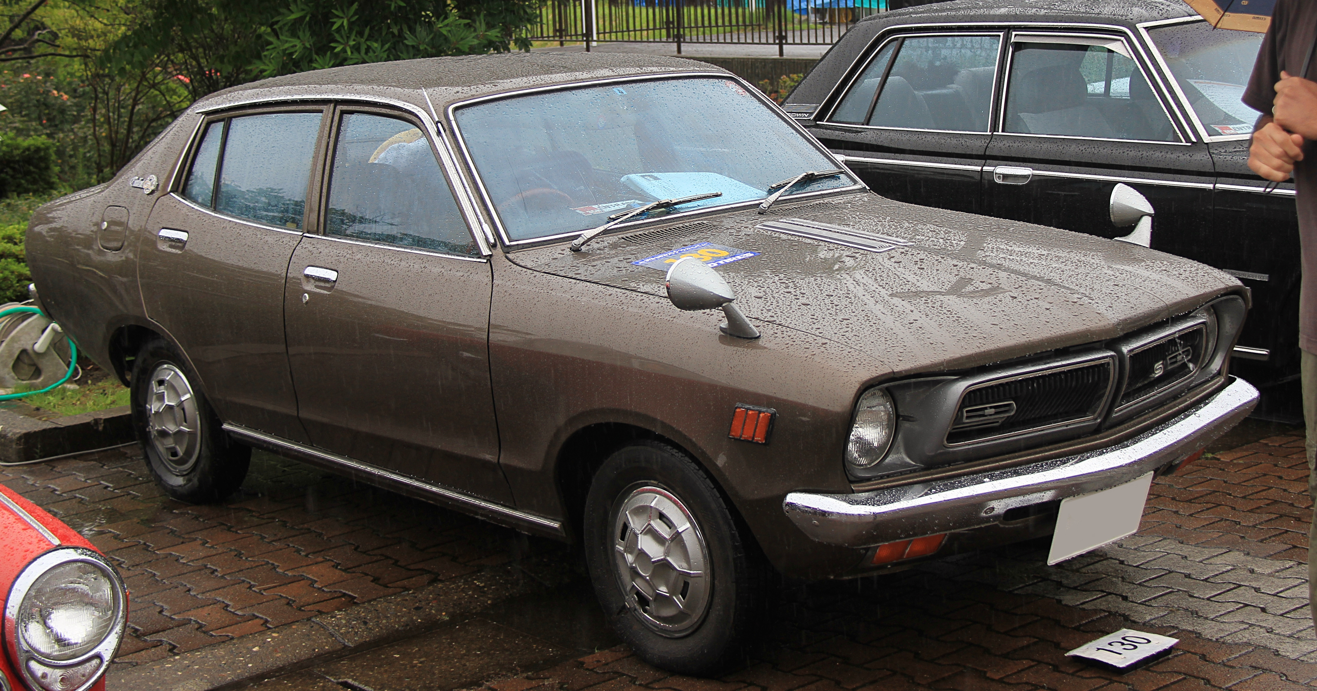 Datsun Sunny Excellent